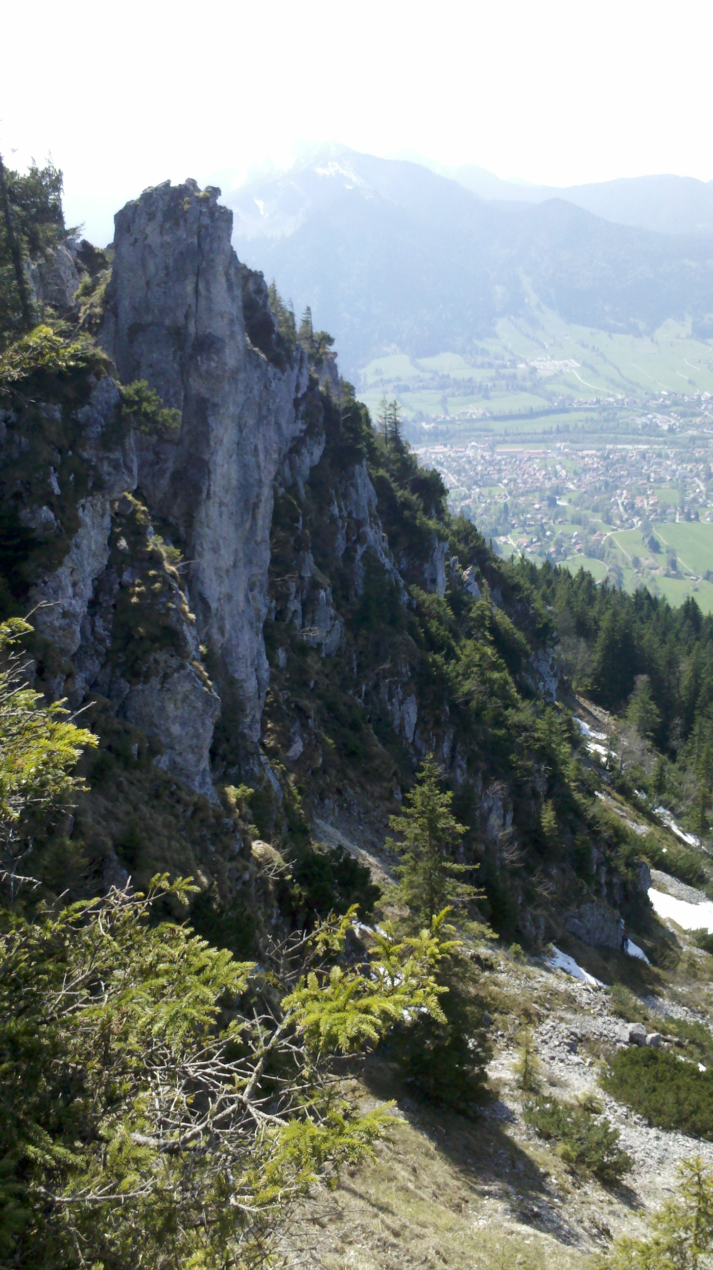 Geierstein, north side